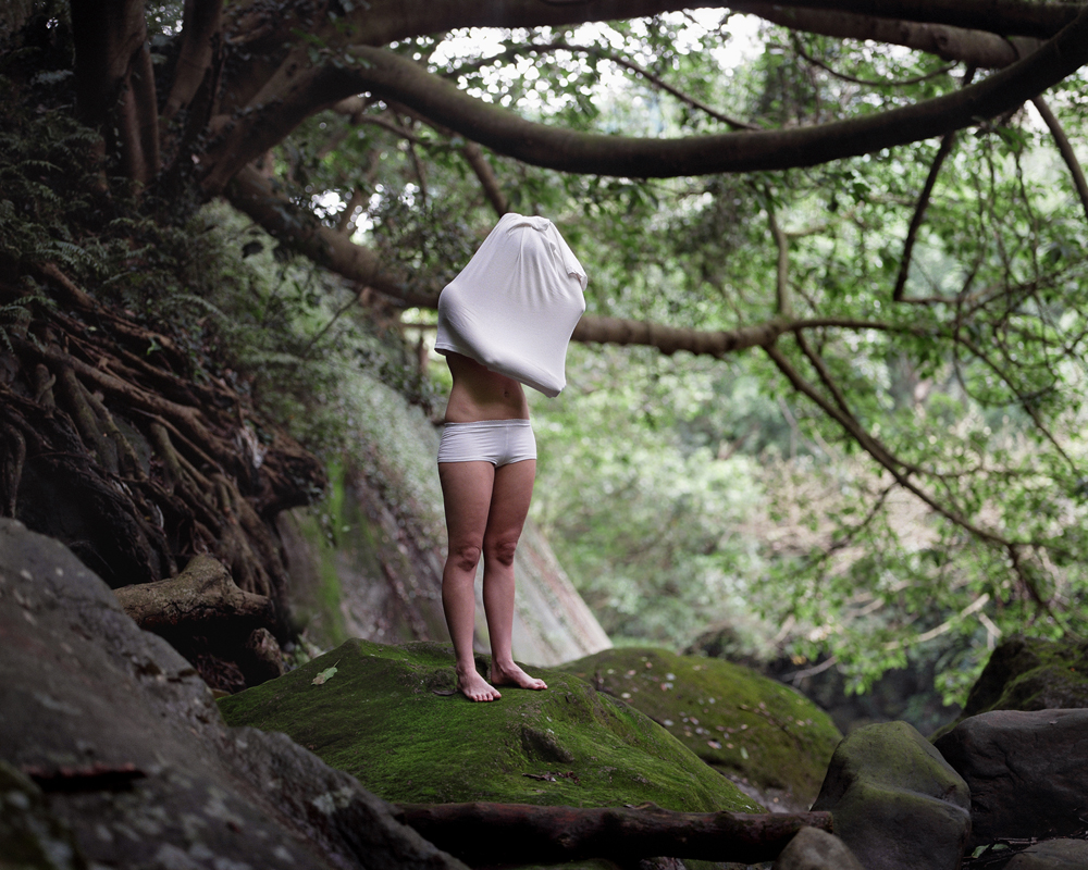 Fine art photography by Carla Liesching